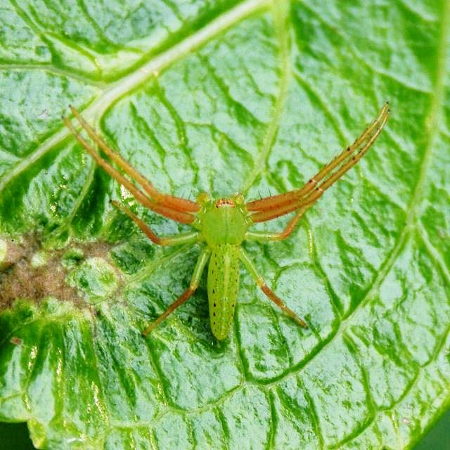 on a leaf of Hydrangea to wait for a catch.